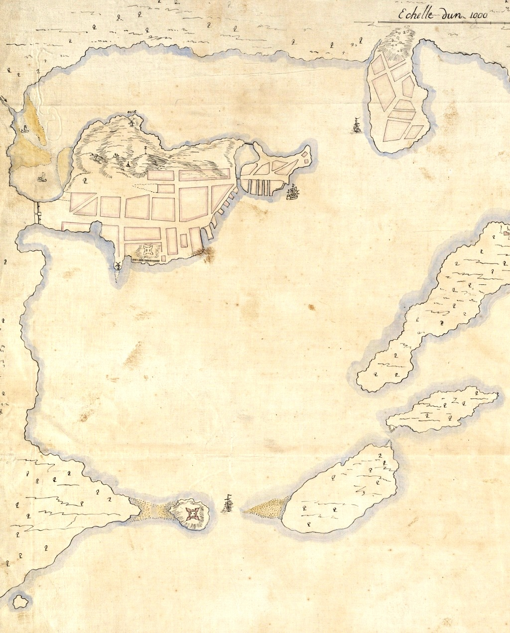 Detail from a 1692 French map of Boston harbor. The Shawmut Peninsula, site of Boston is in the upper left, with Charlestown top center. Castle Island is visible to the lower left.